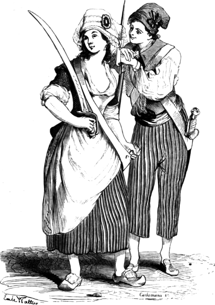 The Pretty Sans-Culotte under Arms with The Sans-Culotte of August 10th.